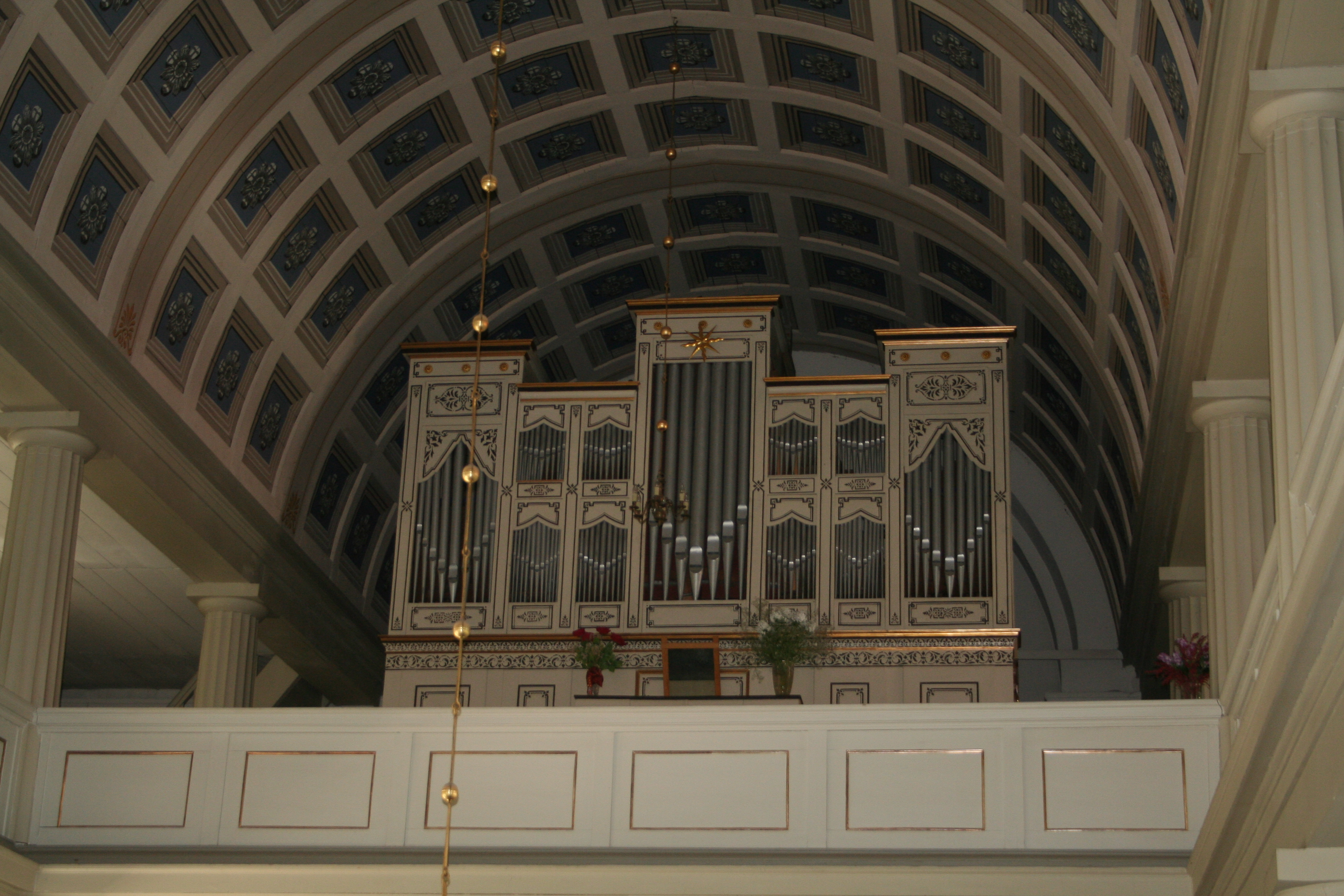 Holy Trinity church in Mikołajki